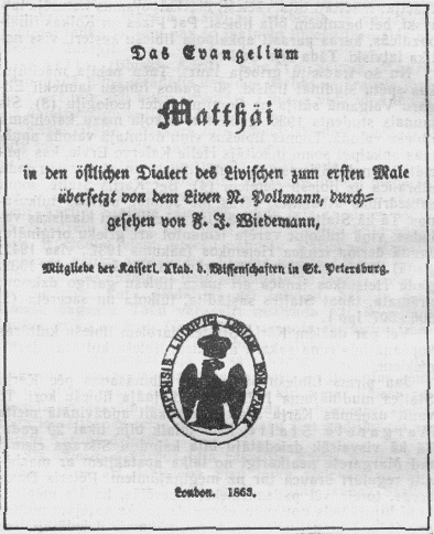 Title page of the Gospel of Matthew in the Eastern dialect of Livonian